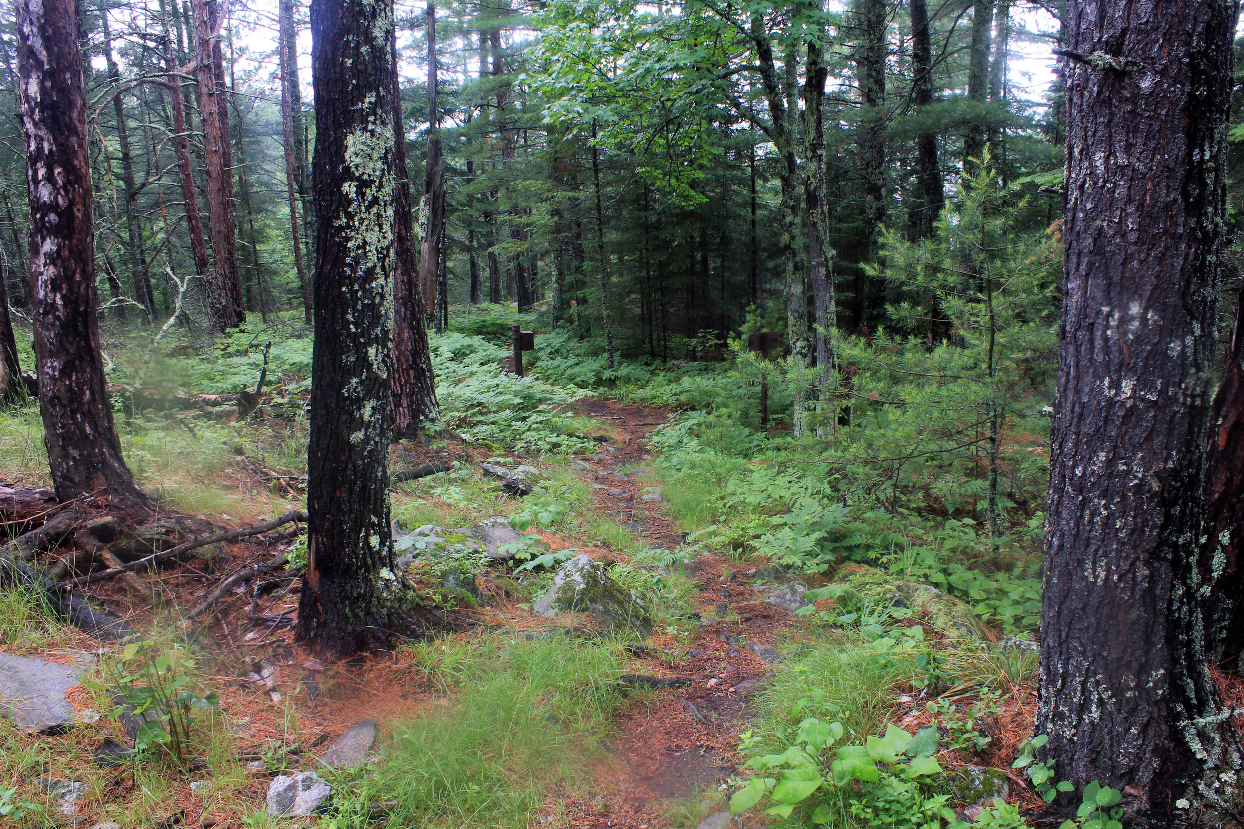 Encompassing four different lakes either competely or partly, Voayguers National Park is a great place for hiking, caneoing/kayaking, fishing, camping, and othe A forested Hiking Path